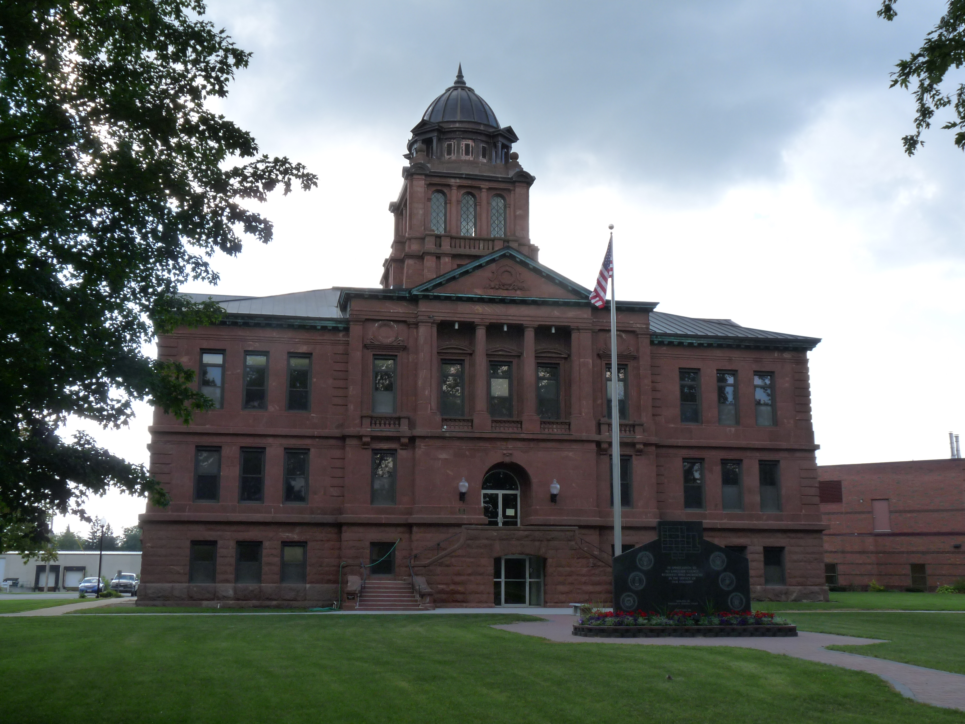 Langlade County courthouse in Antigo, Wisconsin.